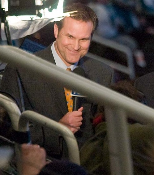 Daryl Reaugh Color Analyst and Ralph Strangis Play-By-Play Announcer for the Dallas Stars Dallas Stars vs. San Jose Sharks